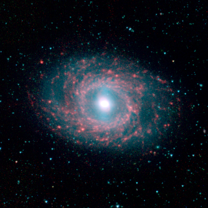 This image of galaxy NGC 3351, located approximately 30 million light-years away in the constellation Leo was captured by the Spitzer Infrared Nearby Galaxy Survey (SINGS) Legacy Project using the telescope's Infrared Array Camera (IRAC).